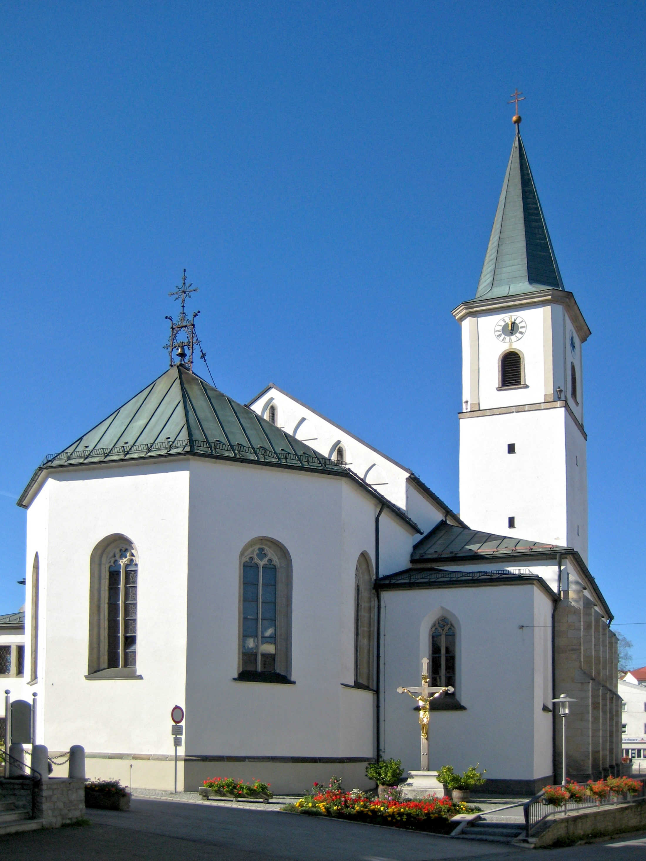 Perlesreut, view of St Andrew Parish Church from north-east.